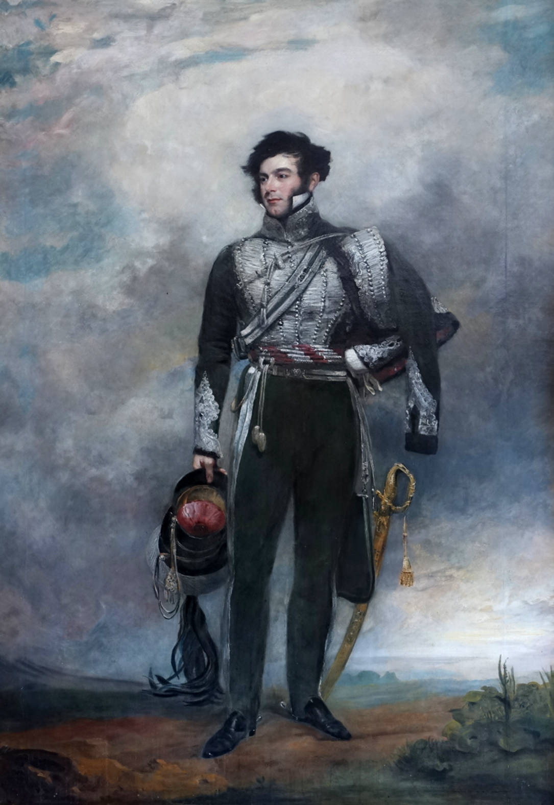 A portrait of Richard Temple-Nugent-Brydges-Chandos-Grenville, 2nd Duke of Buckingham and Chandos, done in 1830 by John Jackson (1778 – 1831). It hangs at Stowe House, the former family estate.